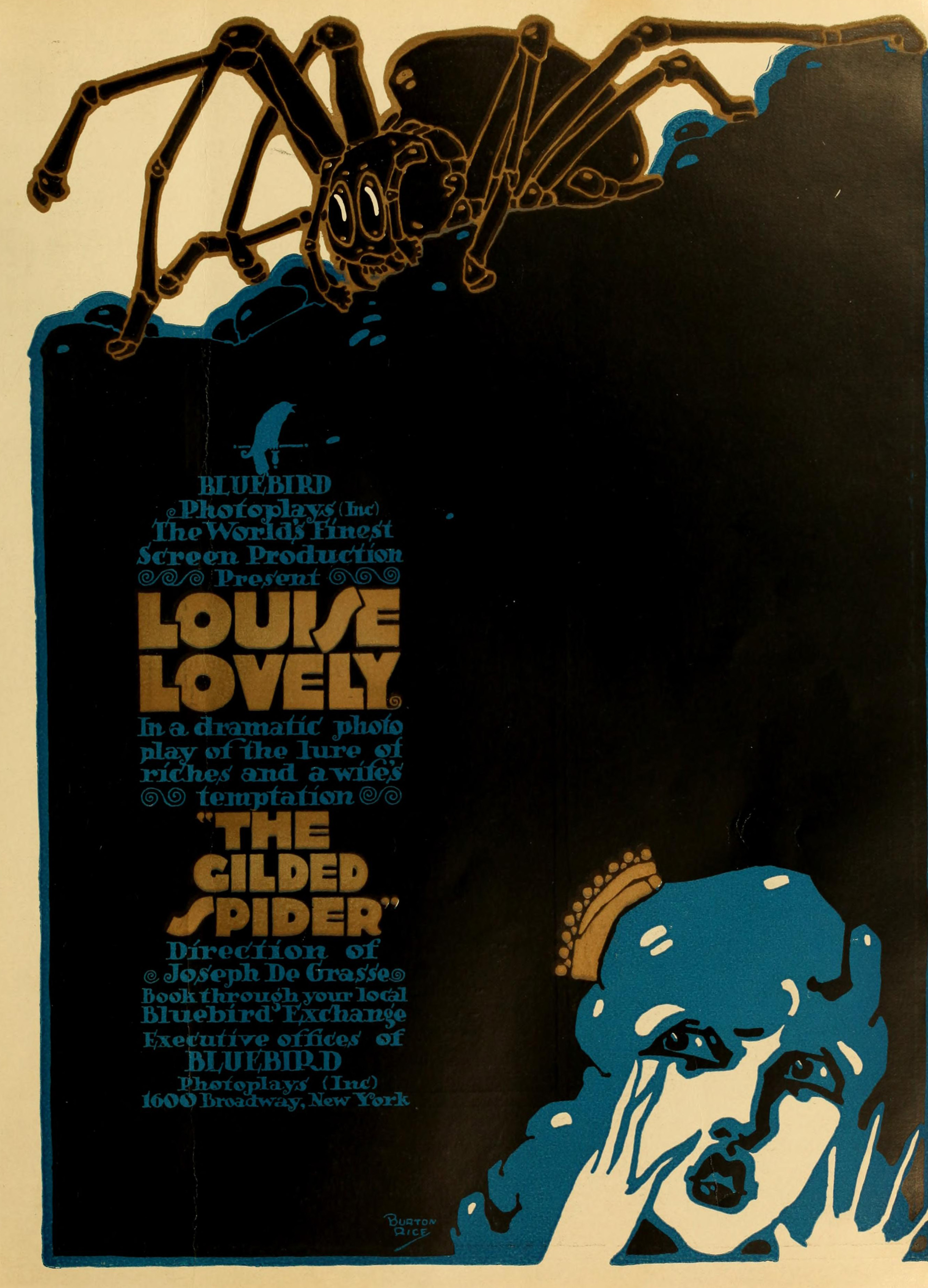 Advertisement in The Moving Picture World for the film The Gilded Spider (1916).